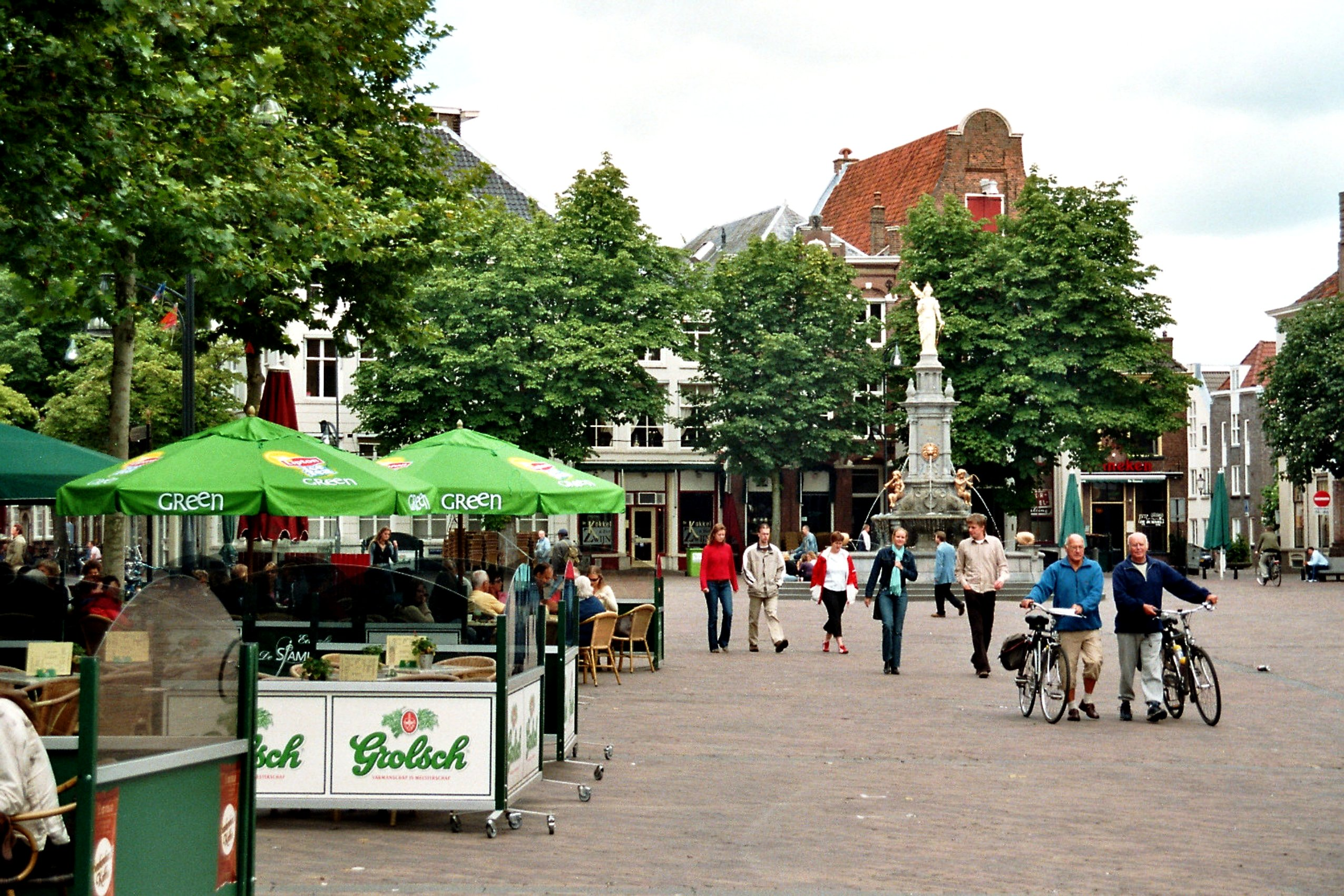 Deventer, the Brink